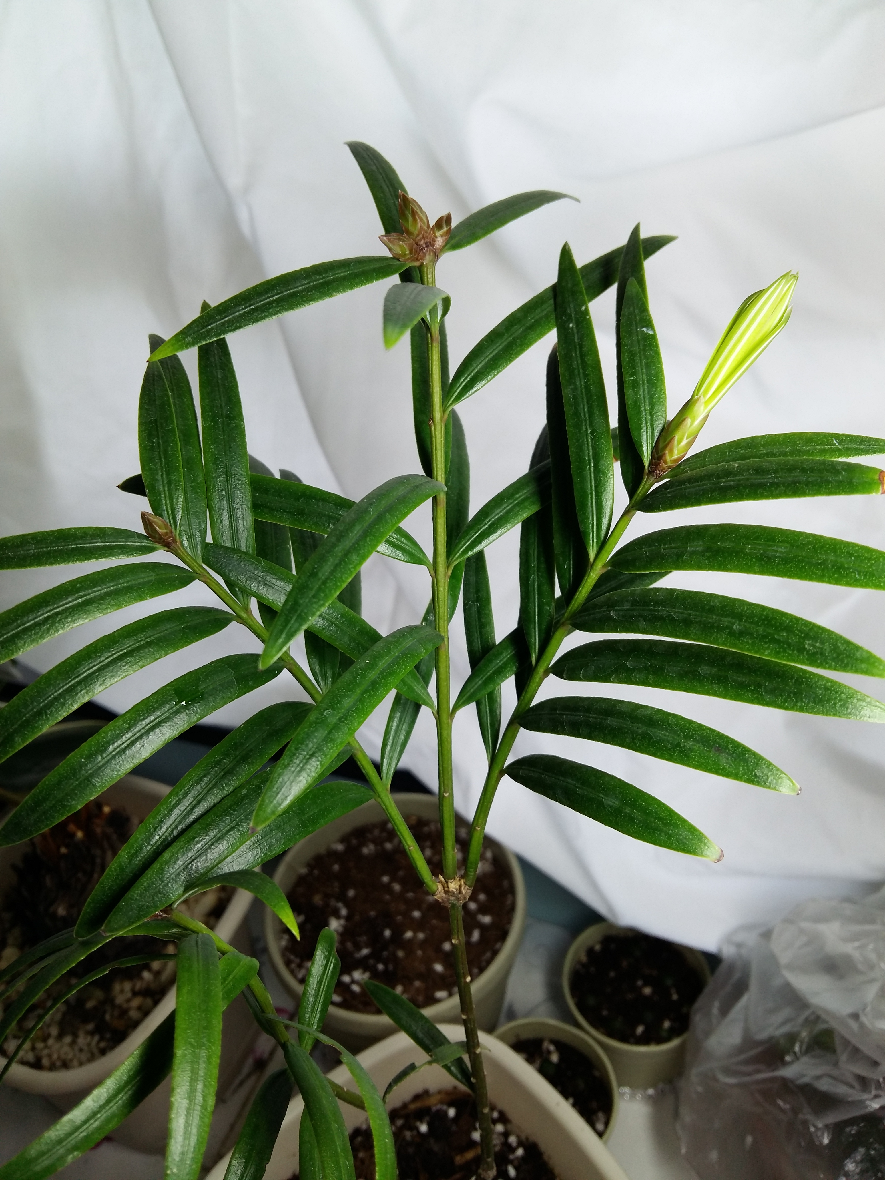 Amentotaxus argotaenia (Catkin Yew) , distributed in China and Vietnam